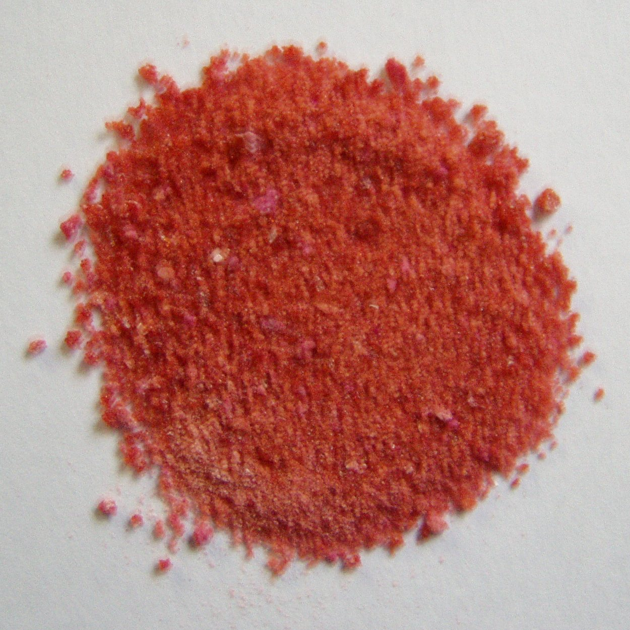 Cobalt(II)sulfate